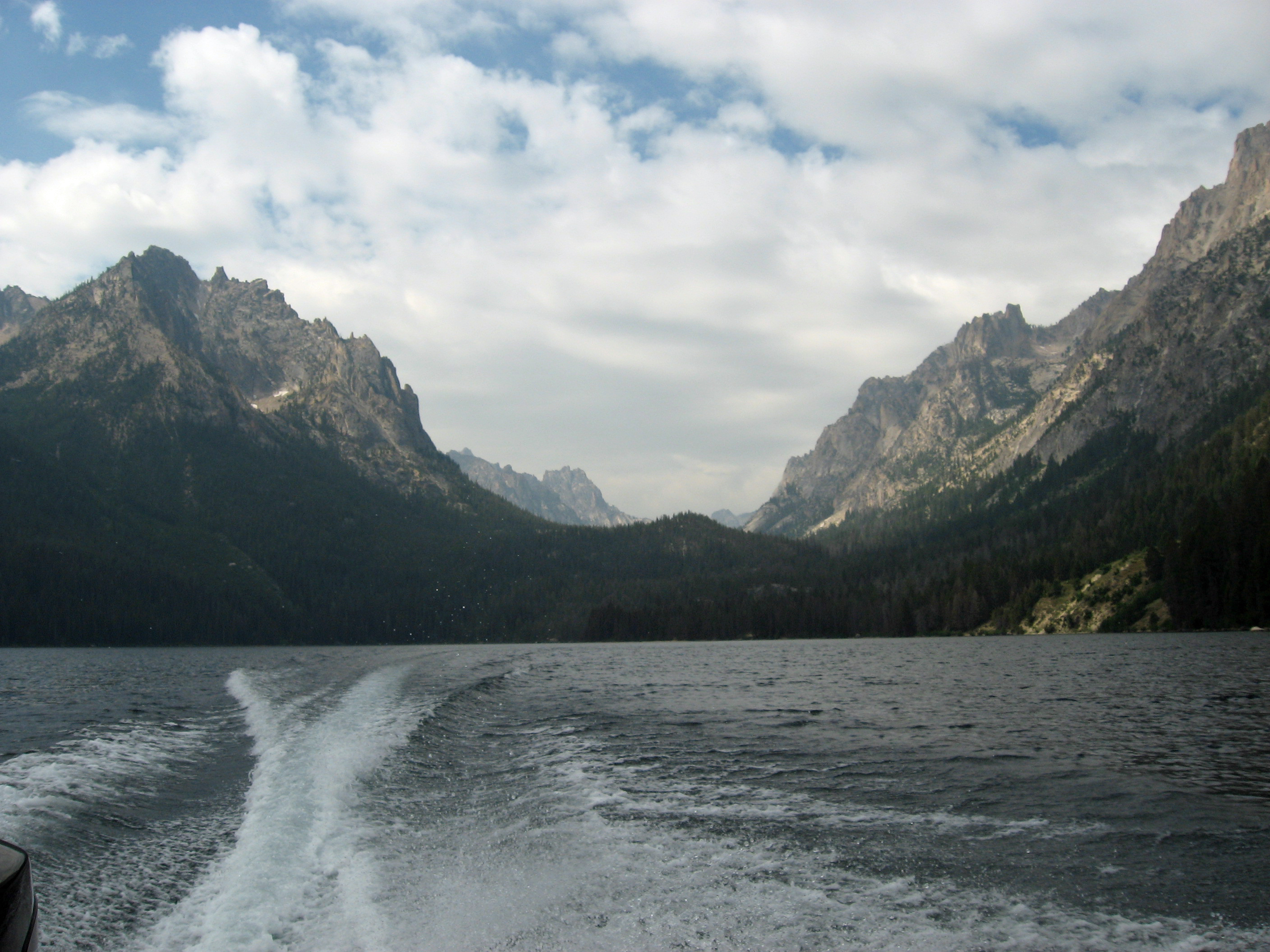 The western end of Redfish Lake (Redfish Lake Creek Canyon) in Sawtooth National Recreation Area in Custer County, Idaho